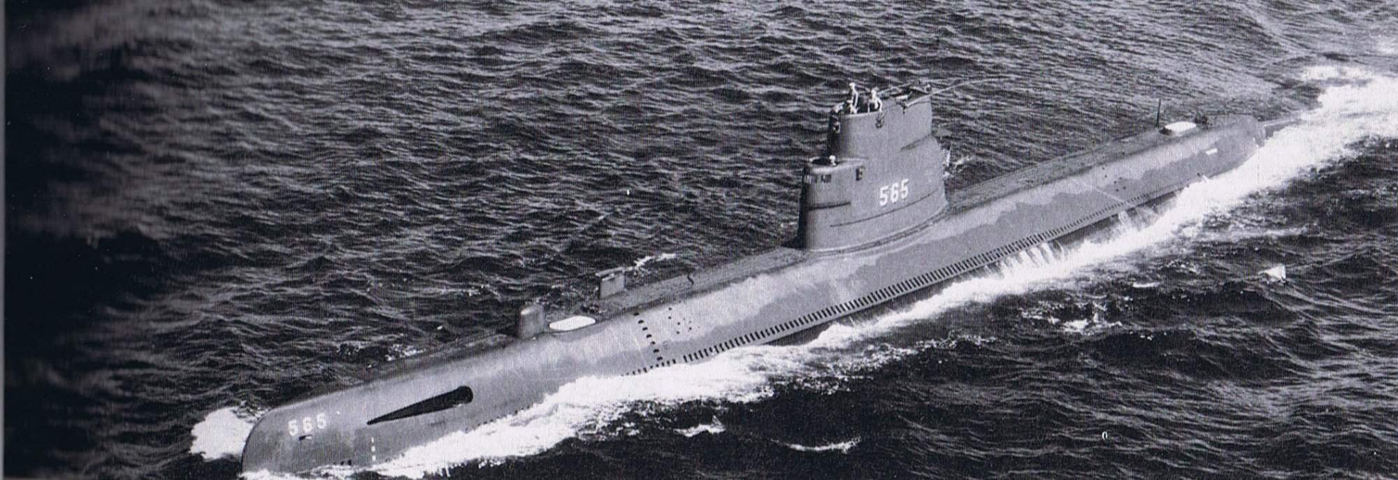 The U.S. Navy submarine USS Wahoo (SS-565) underway, circa in 1955.